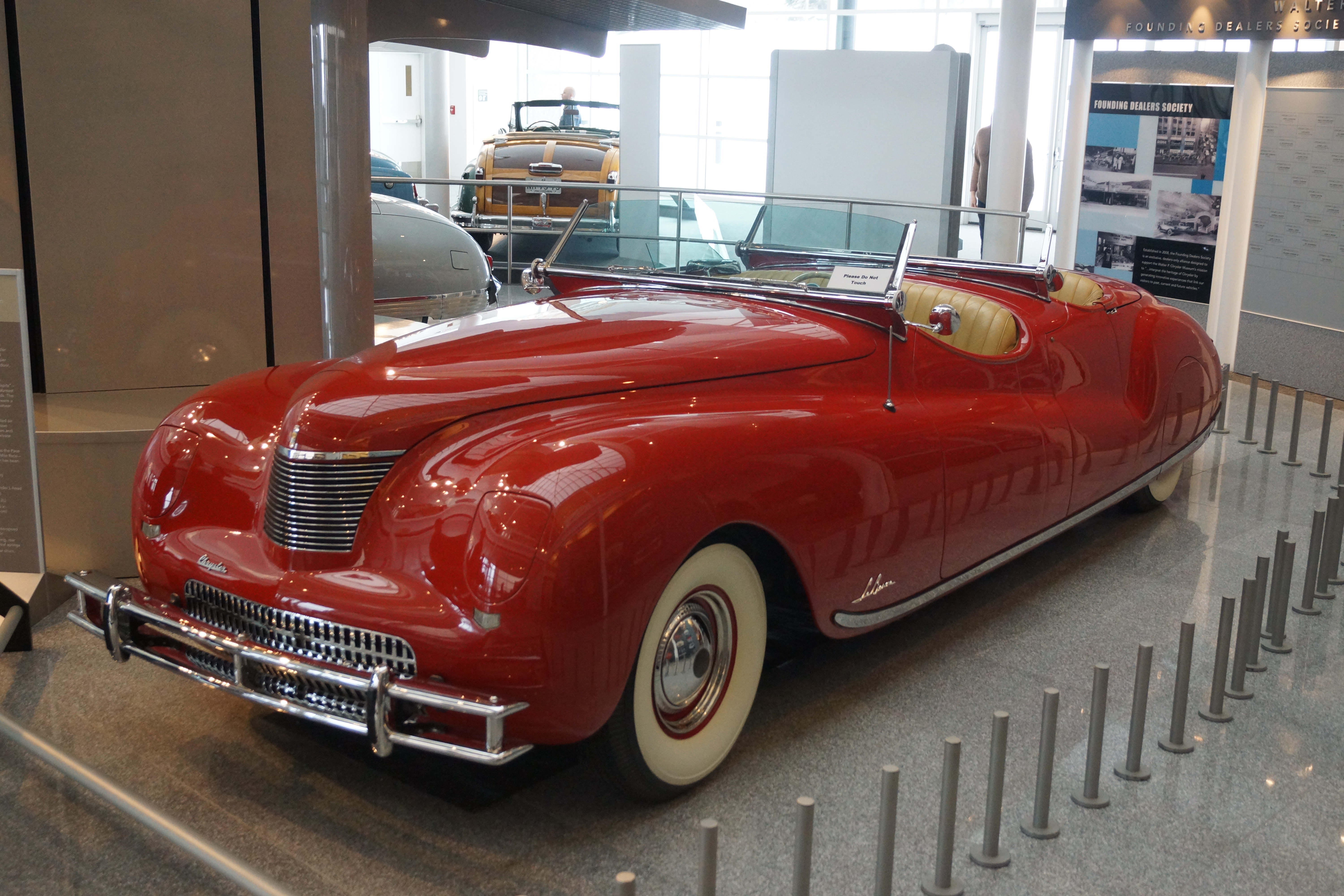 Click here for more car pictures at my Flickr site. Or here for my Car Crazy Tumblr site. Back on November 4th, Hemming's Blog posted an article about the closing of the Walter P. Chrysler Museum . I had missed a couple other opportunities with the WPC Club and others to get into the museum, after it had closed to the public. I did not want to regret missing this last chance to see all of the vehicles before being spread out to other facilities. I trekked from Western Minnesota to Eastern Michigan during Winter Storm Decima. I missed the worst parts of the storm, but still had to endure the aftermath winds, sub zero temperatures and a lake effect snow storm. The trip was difficult, but well worth it. I got to see several Chrysler Corporation concept and show cars that I had only seen pictures of before. There were several clever interactive displays demonstrating various innovations over the years. Since it was the last chance, I duplicated several shots using different camera settings to see what produced better results. I wish I had invested in a strobe light diffuser for all of those indoor pictures. I have not had much experience or success in the past with indoor car images.